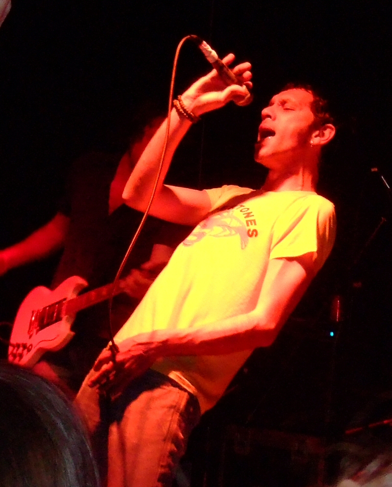 Rick Witter on stage at the Dundee Doghouse